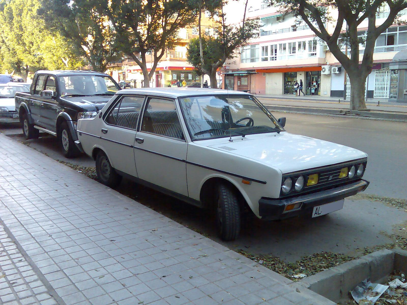 White SEAT 131, with selective yellow fog lights. Seen in Almería.